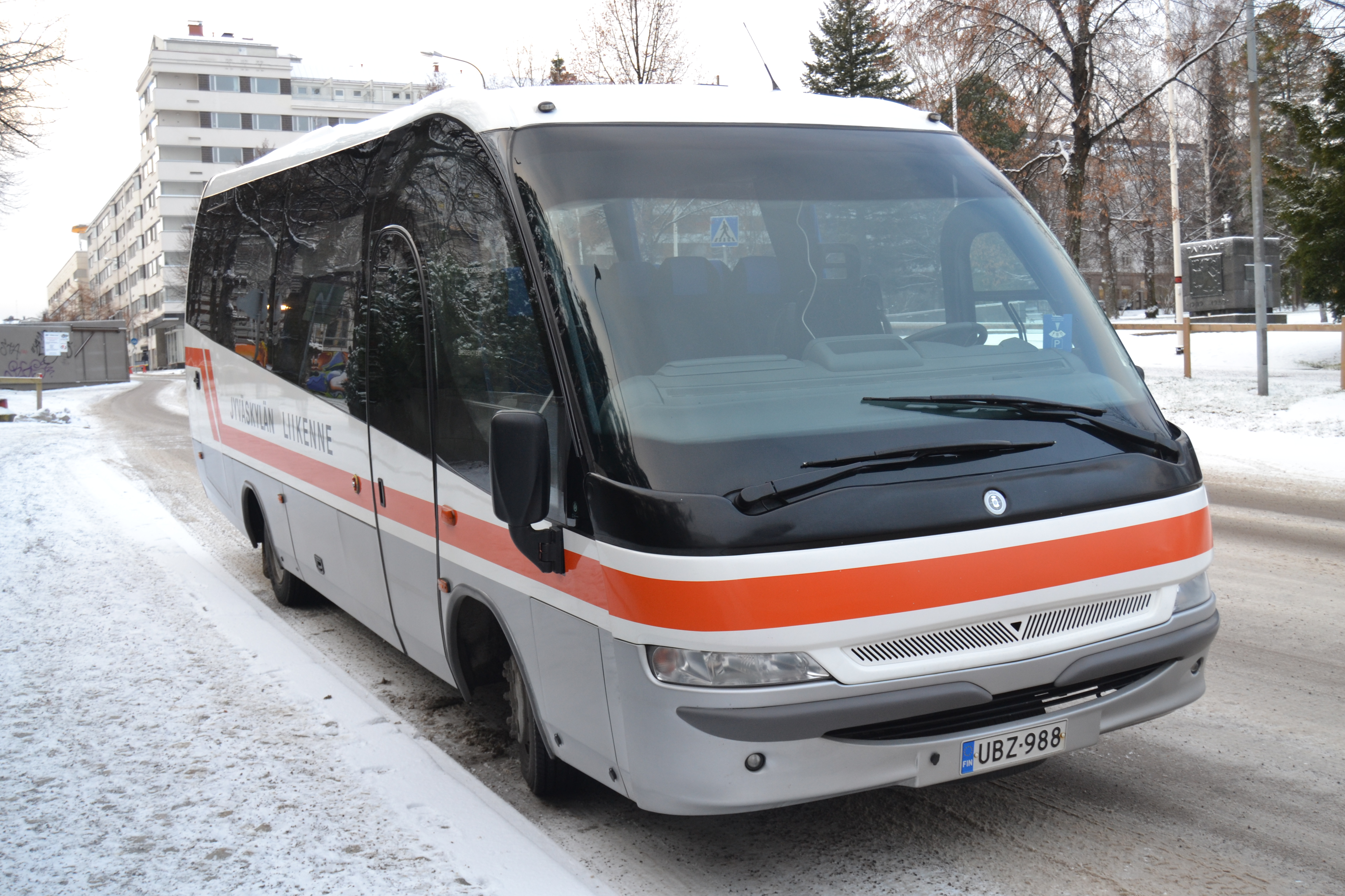 Jyväskylän Liikenne Indcar Mago 2 midibus (reg. UBZ-988) witch Iveco chassis on the street Vapaudenkatu in Jyväskylä, Finland.